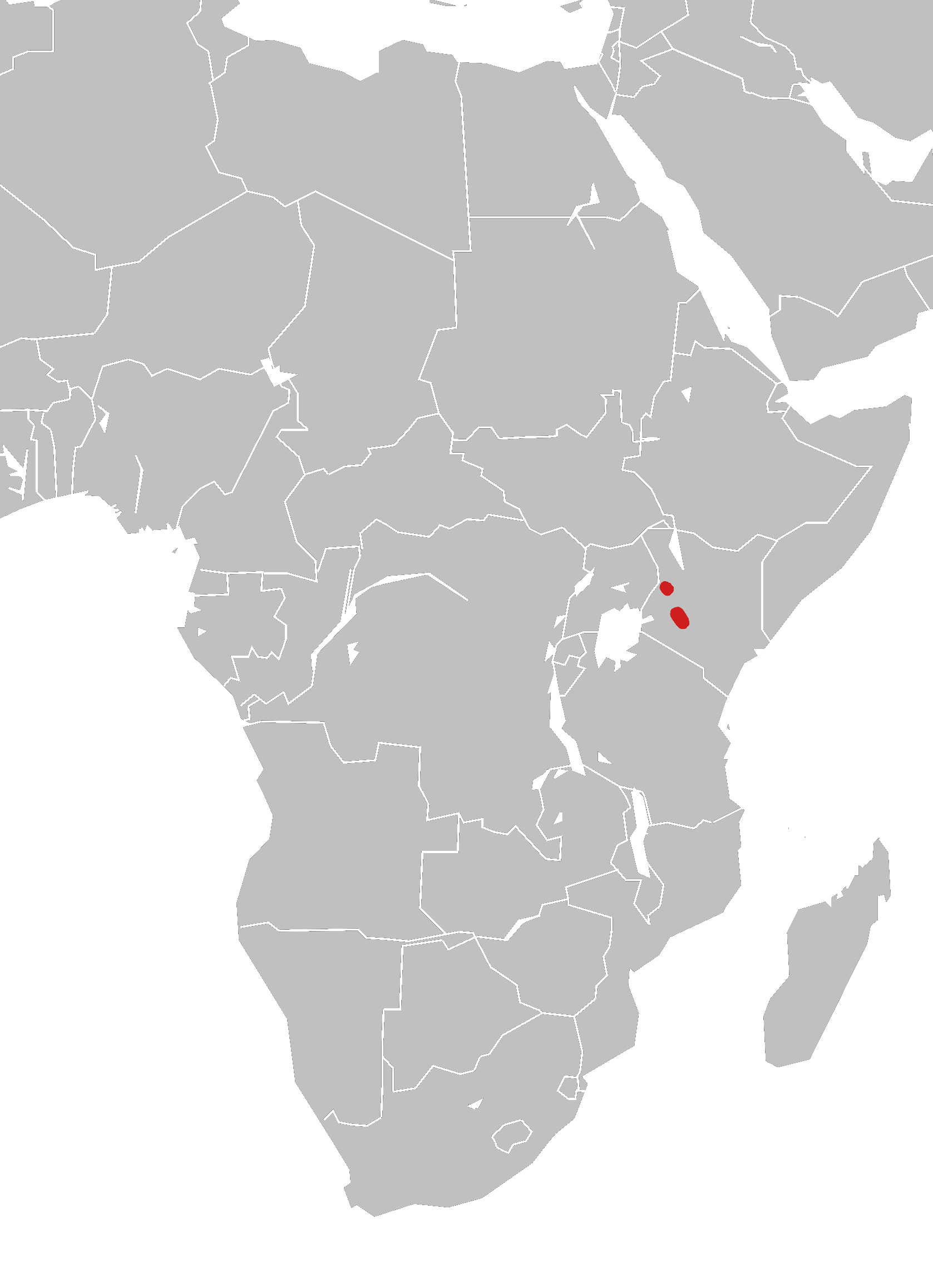 Distribution of Bitis worthingtoni based on [1].